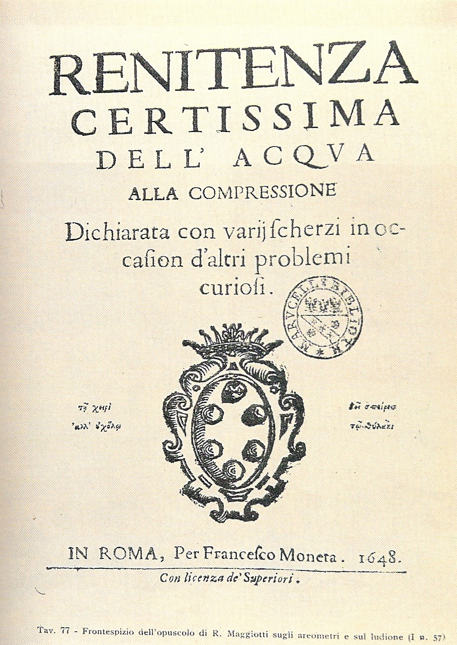 Frontcover of "Renitenza certissima dell' Acqua alla compressione" by Raffaello Magiotti